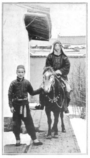 Cecil Frederick Robertson traveling to Yenan, China from Xi'an